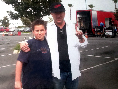 Shane Saunders with director Deran Sarafian on the set of the "CSI: Crime Scene Investigation" episode "Turn of the Screws" in March, 2004.